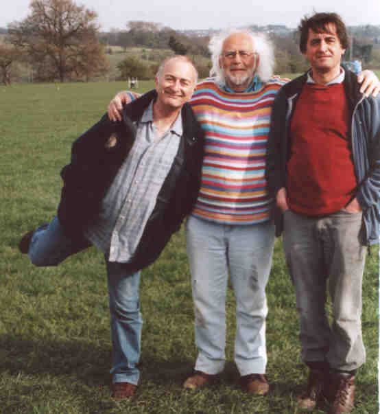 Author: Guy de la Bedoyere Original caption by Bedoyere at Guy de la Bédoyère: "With Tony Robinson and Mick Aston on a Time Team shoot in 2007."[1] (note by JackyR)